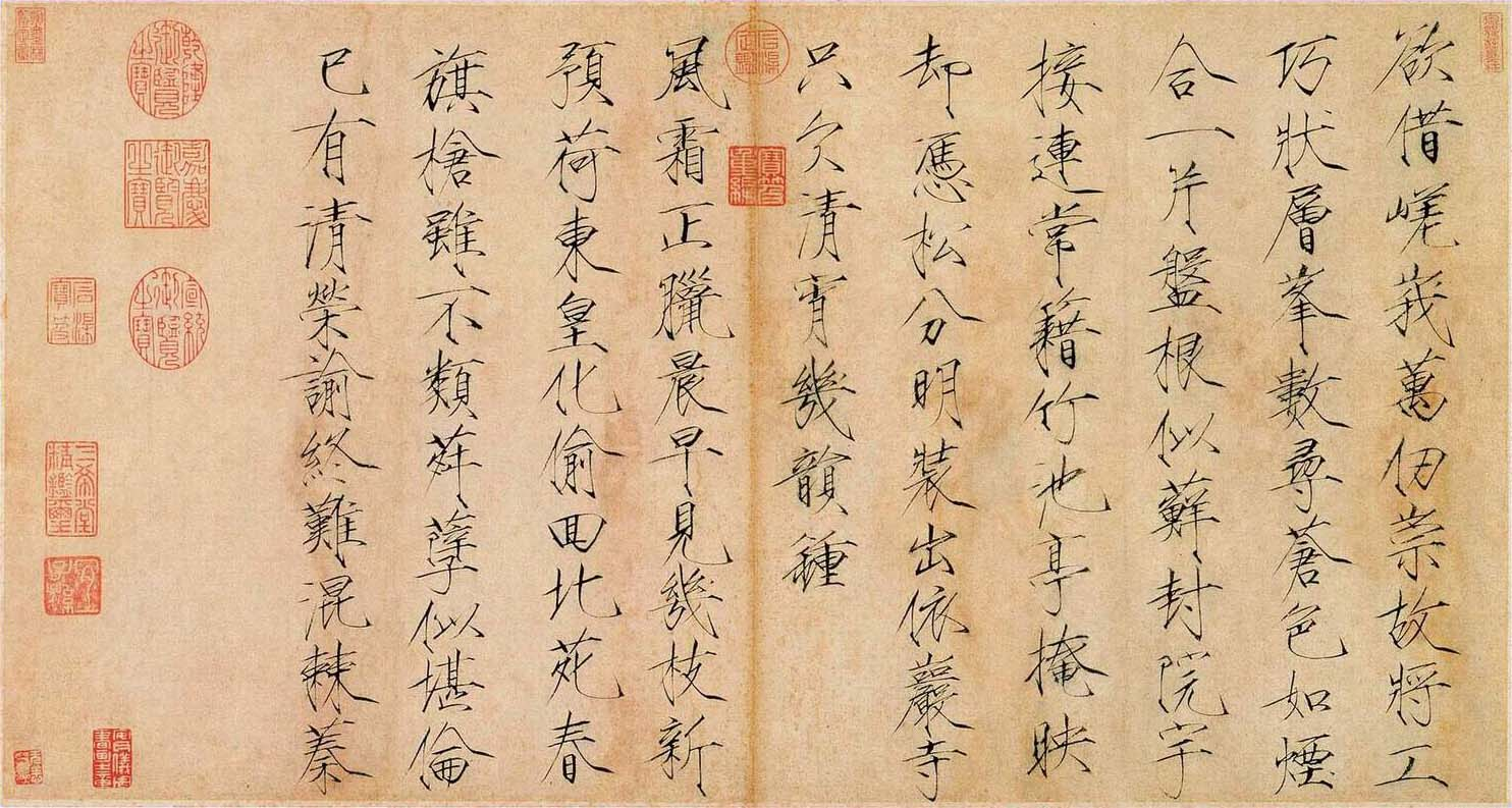 Poem and calligraph